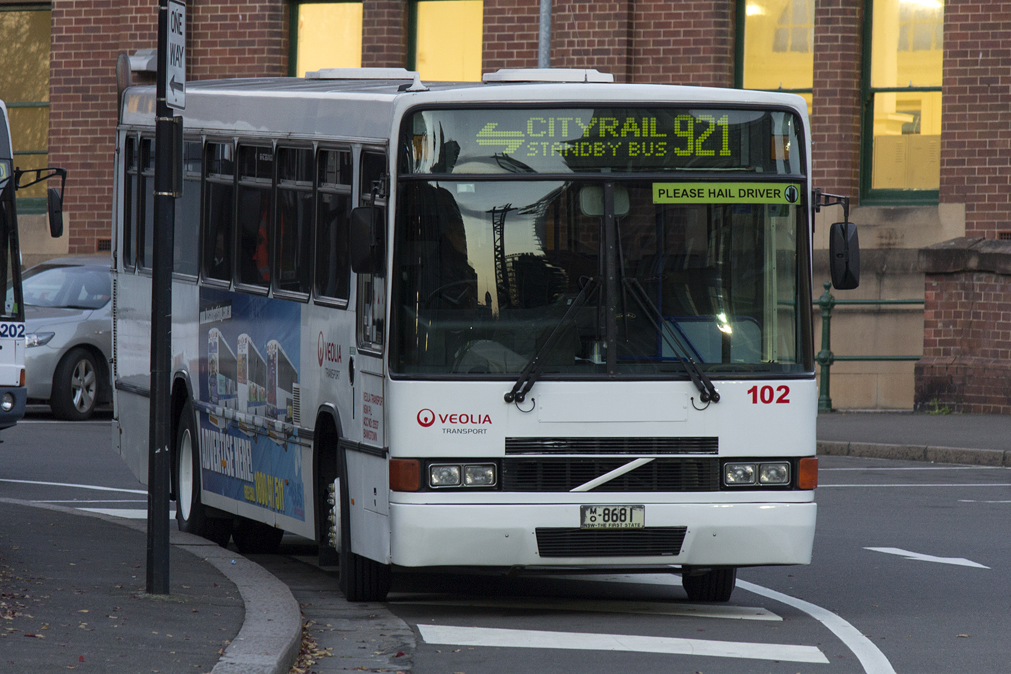 Veolia Transport (mo 8681) Custom Coaches '210' bodied Volvo B10M Mk III at Central Station in Sydney.